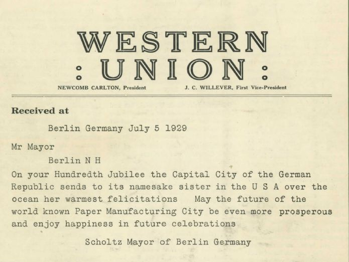 Telegram sent in July of 1929 from the Mayor of Berlin, Germany to the Mayor of Berlin, New Hampshire.